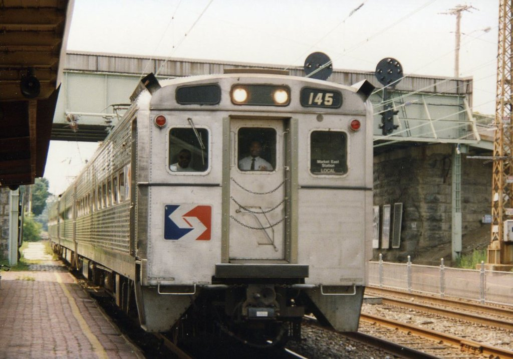 SEPTA 145 makes an eastbound station stop at Paoli, Pennsylvania.